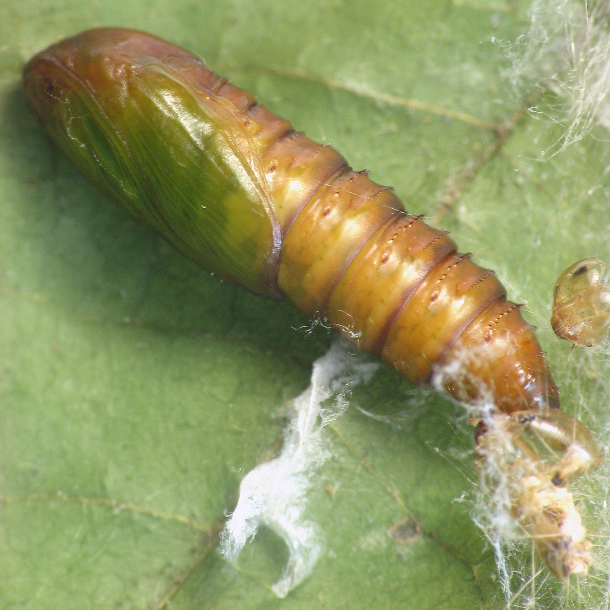 Pupa of Pandemis limitata (Three-lined Leafroller - Hodges#3594) on witch hazel. Size: 12 mm. Pennypack Restoration Trust, Montgomery County, Pennsylvania, USA.